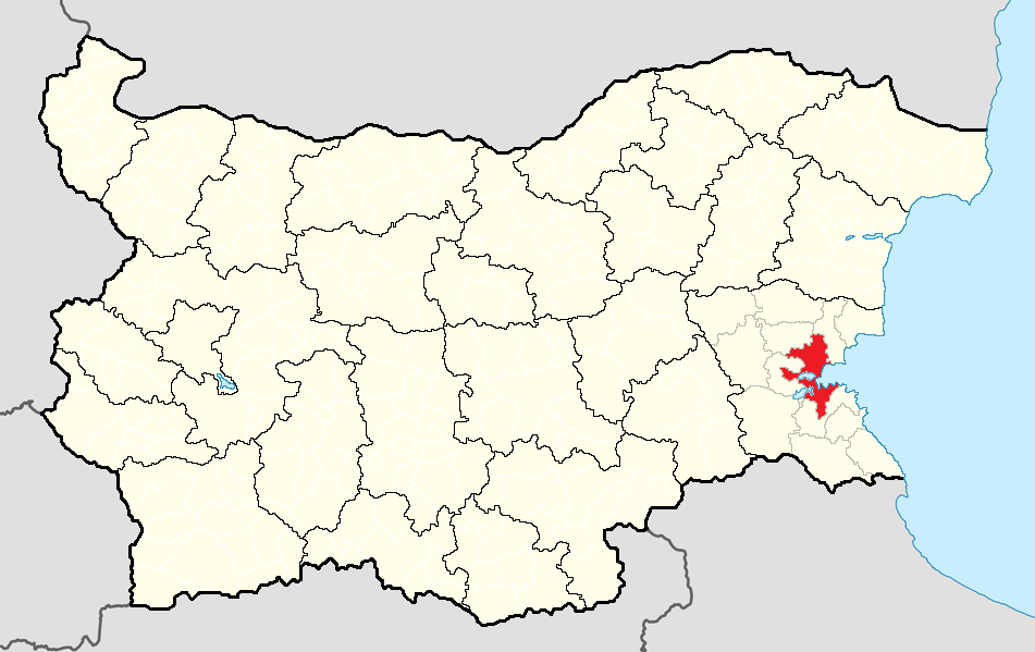 Location map of Burgas Municipality within Bulgaria and Burgas Province Equirectangular projection, N/S stretching 130 %. Geographic limits of the map: N: 44.4° N S: 41.1° N W: 22.1° E E: 28.9° E